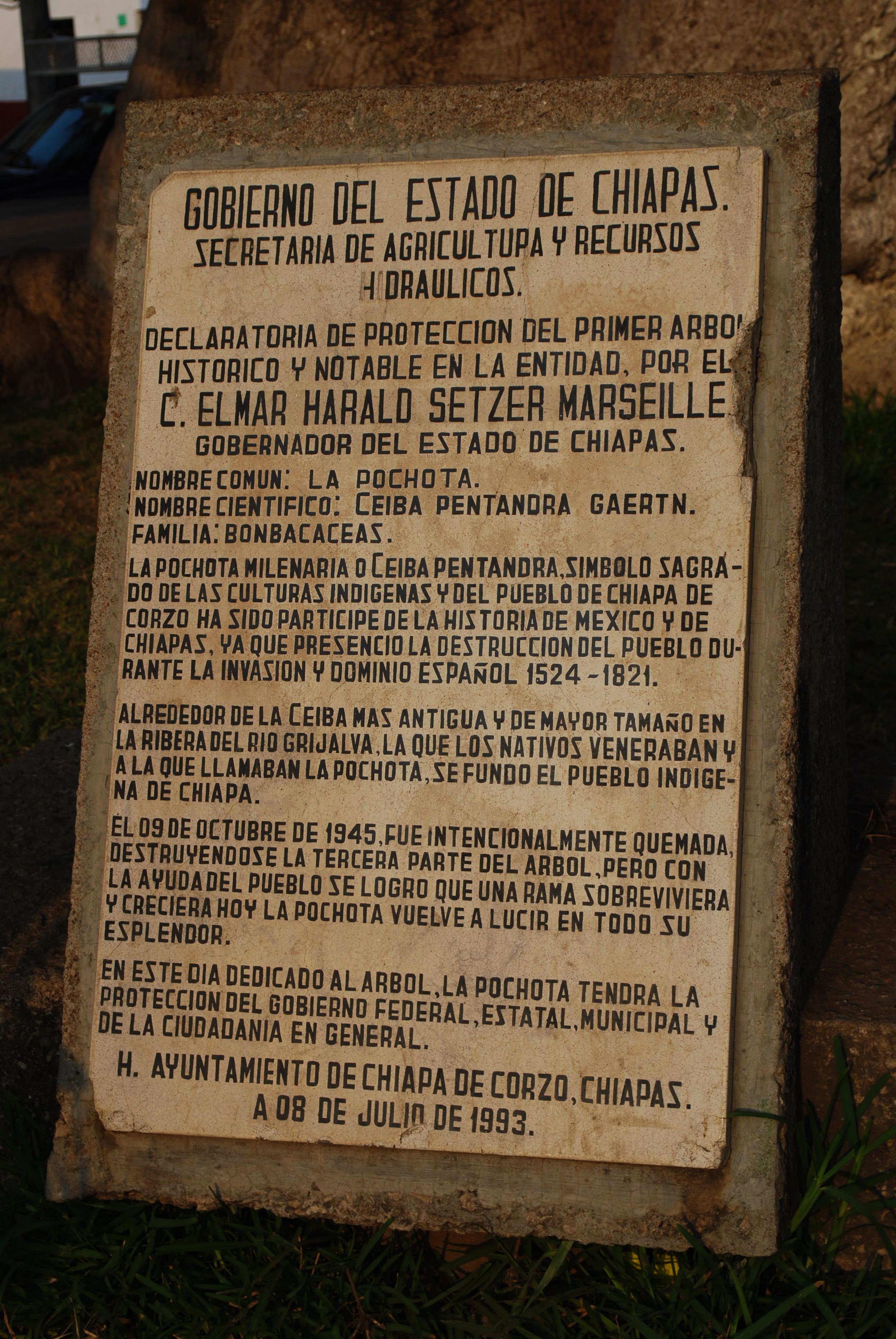 Sign about the La Pochota kapok tree in Chiapa de Corzo, Chiapas, Mexico